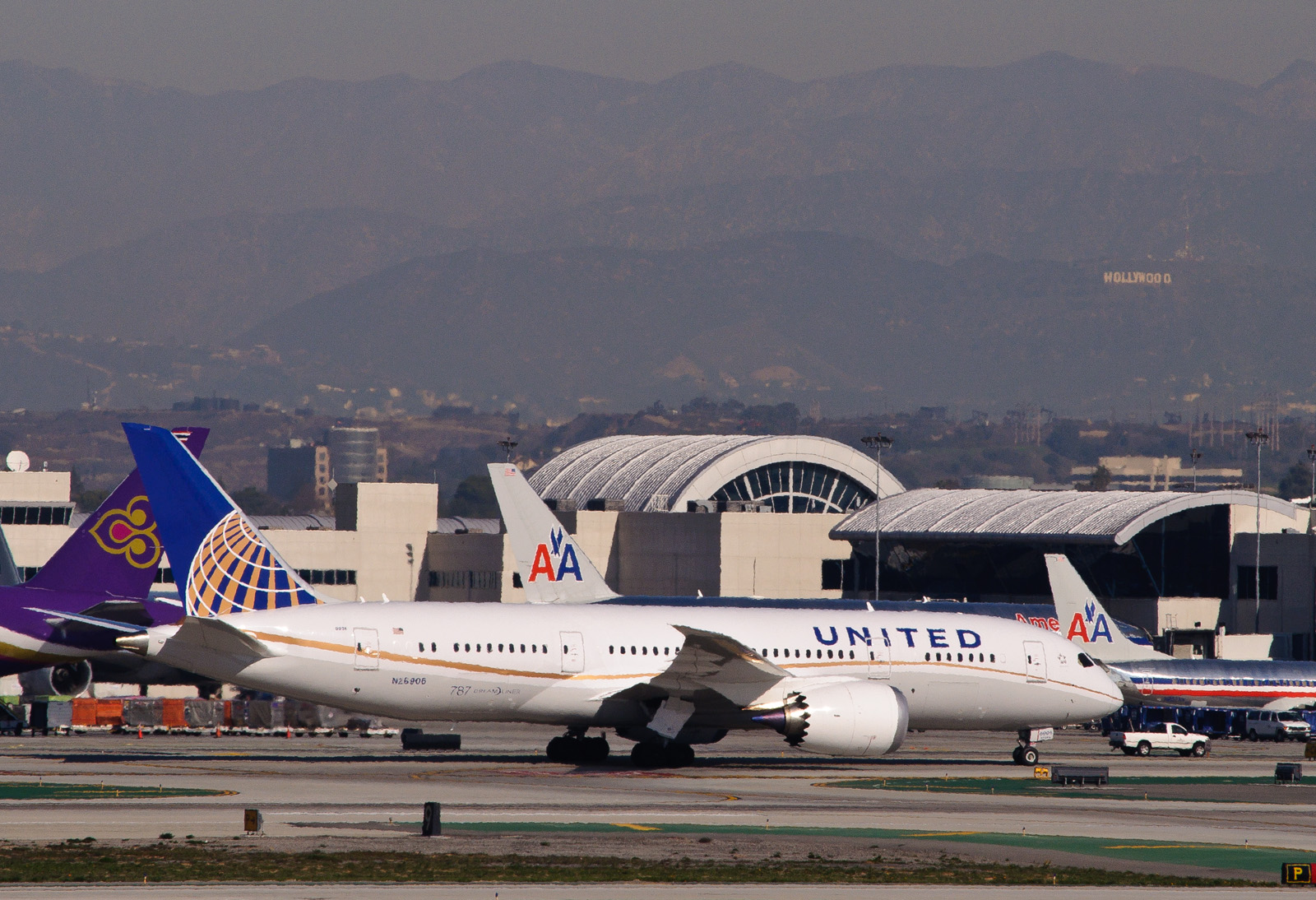 Some planespotting for the very first weekend of 2013 - in anticipation of seeing the new United 787 services to/from Tokyo. (And I was far from alone - plenty of hardcore planespotters, all of male middle-aged persuasion except for yours truly.) United's second 787 returns from Tokyo after performing its first revenue overseas run. Callsign is United 33. Already it is midday and heat haze is starting to kick in. N26906, Boeing 787-8